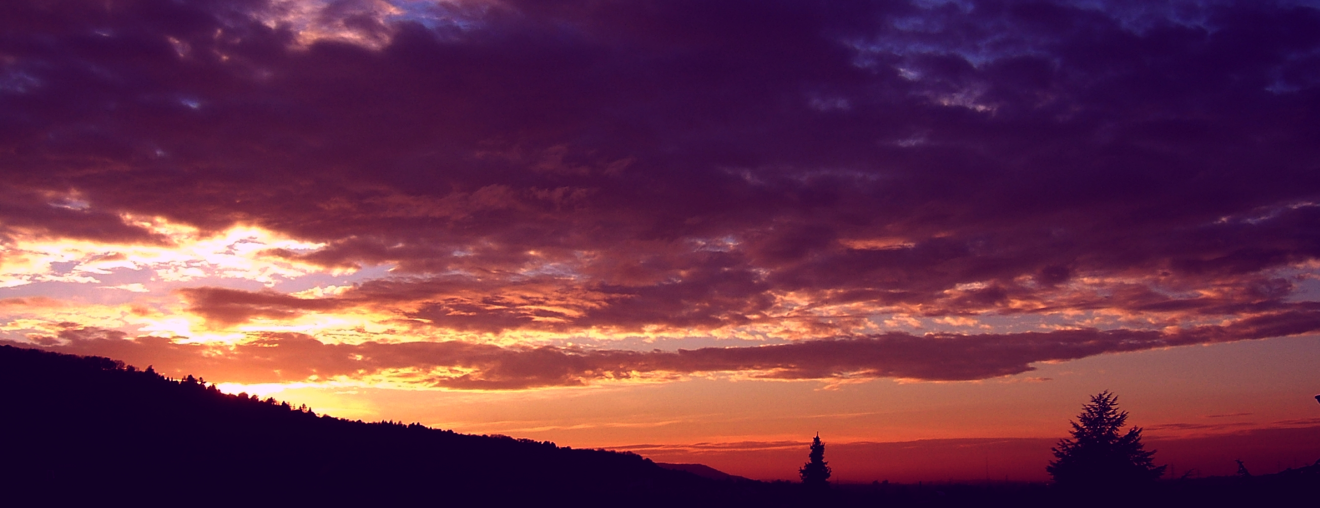 Evening Sky above Rems Valley, Baden Württemberg, Germany